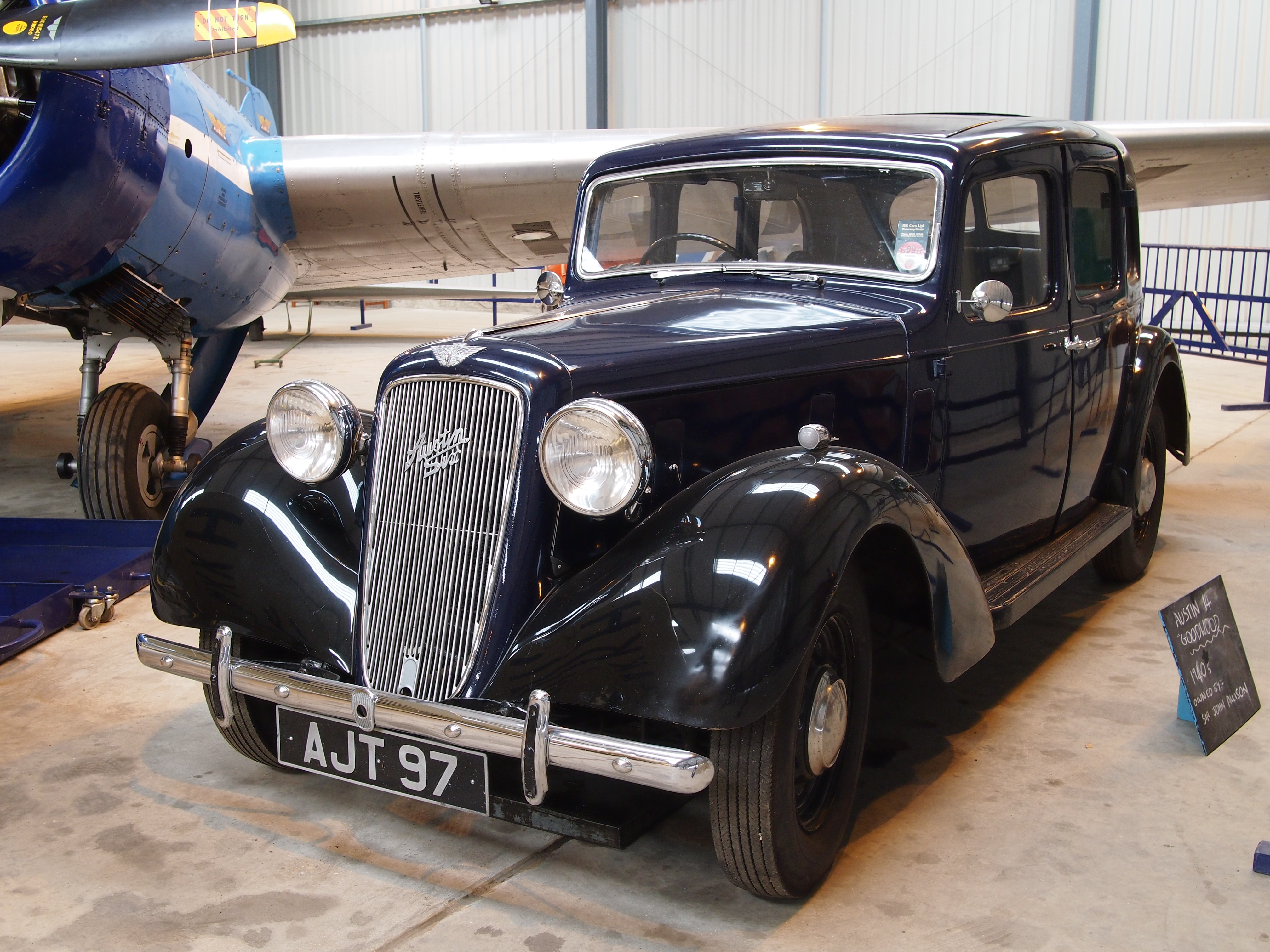 Austin Goodwood, this model introduced in mid-1938 with higher and wider doors and a longer bonnet This car belongs to Sir John Allison and is part of The Shuttleworth Collection at Old Warden Bedfordshire